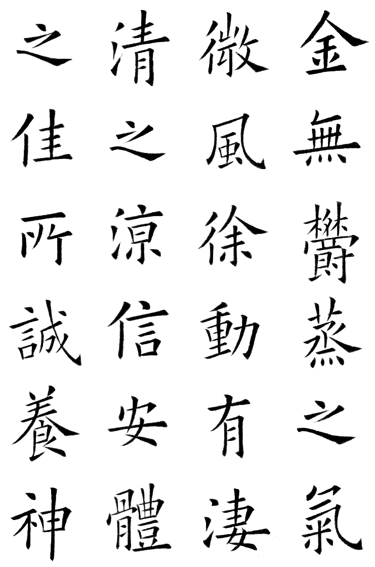 A page of 姚孟起's 1883 copy of 九成宮醴泉銘 by 歐陽詢. 文言: 光緒九年歲在癸未暮春之初古吳姚孟起臨九成宮醴泉銘北宋本之一頁